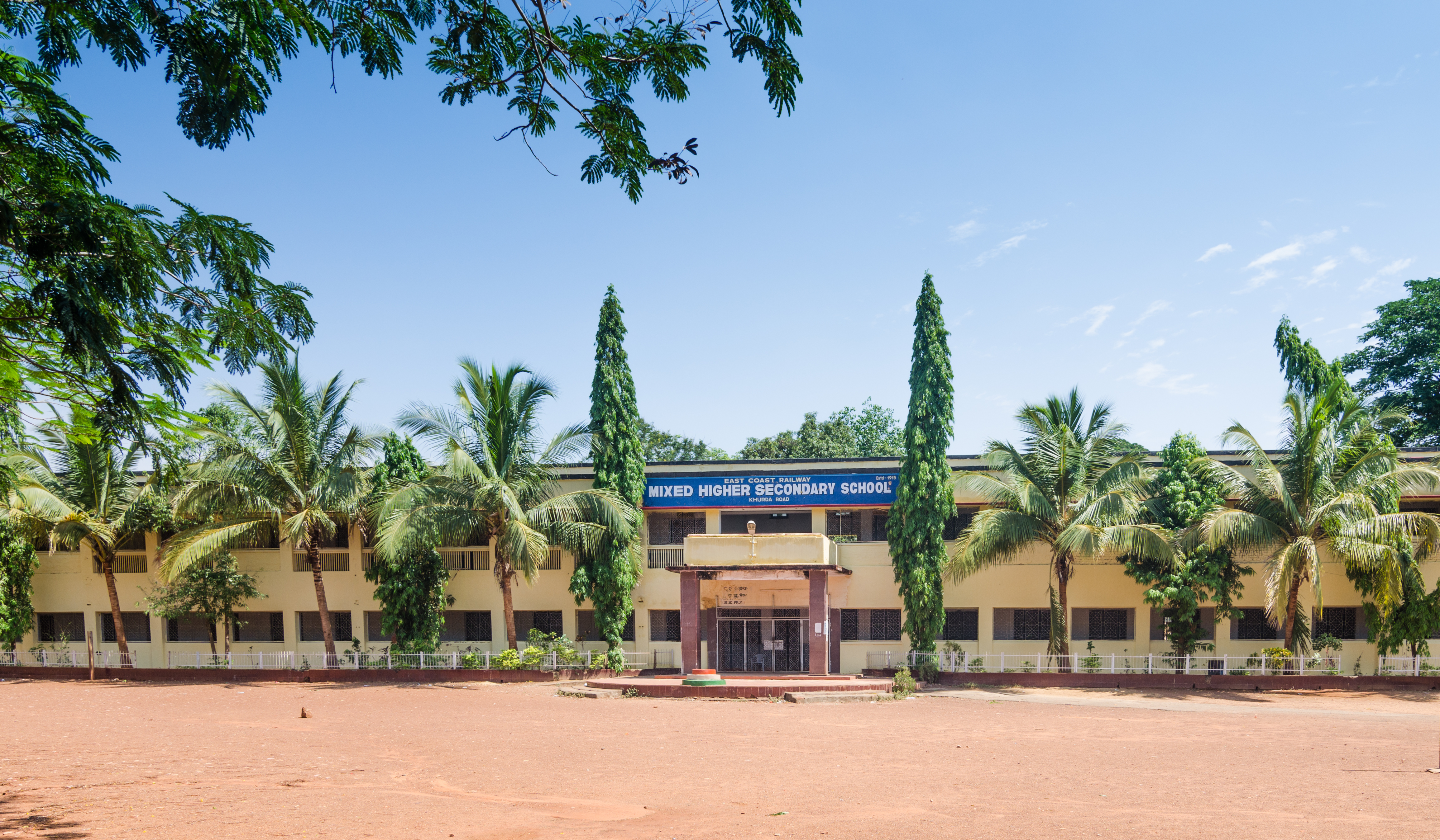 East Coast Railway Mixed Higher Secondary School, Jatani